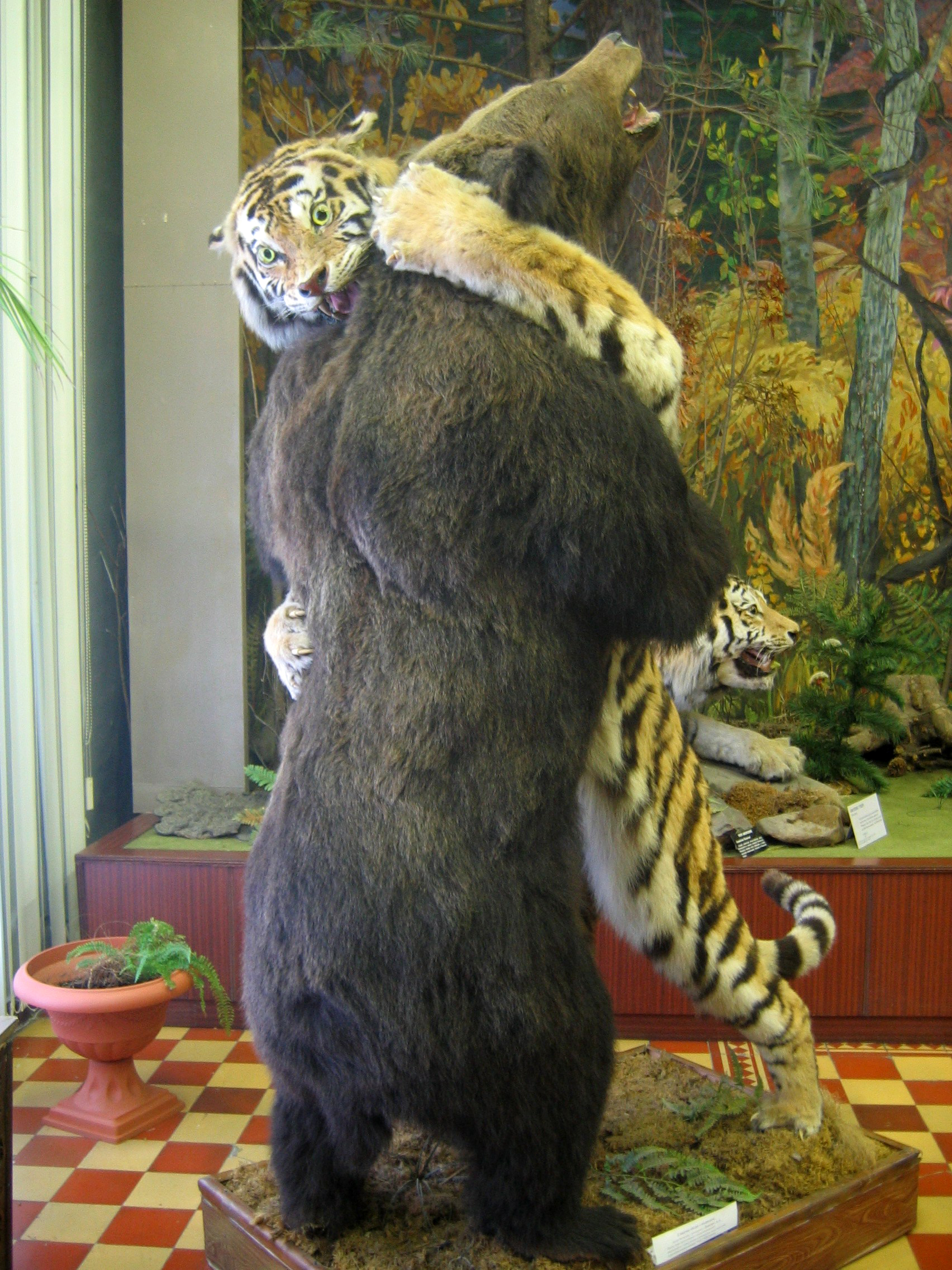 Tiger and bear. Arsenev Regional History Museum, Vladivostok, Russia, Vladivostok.